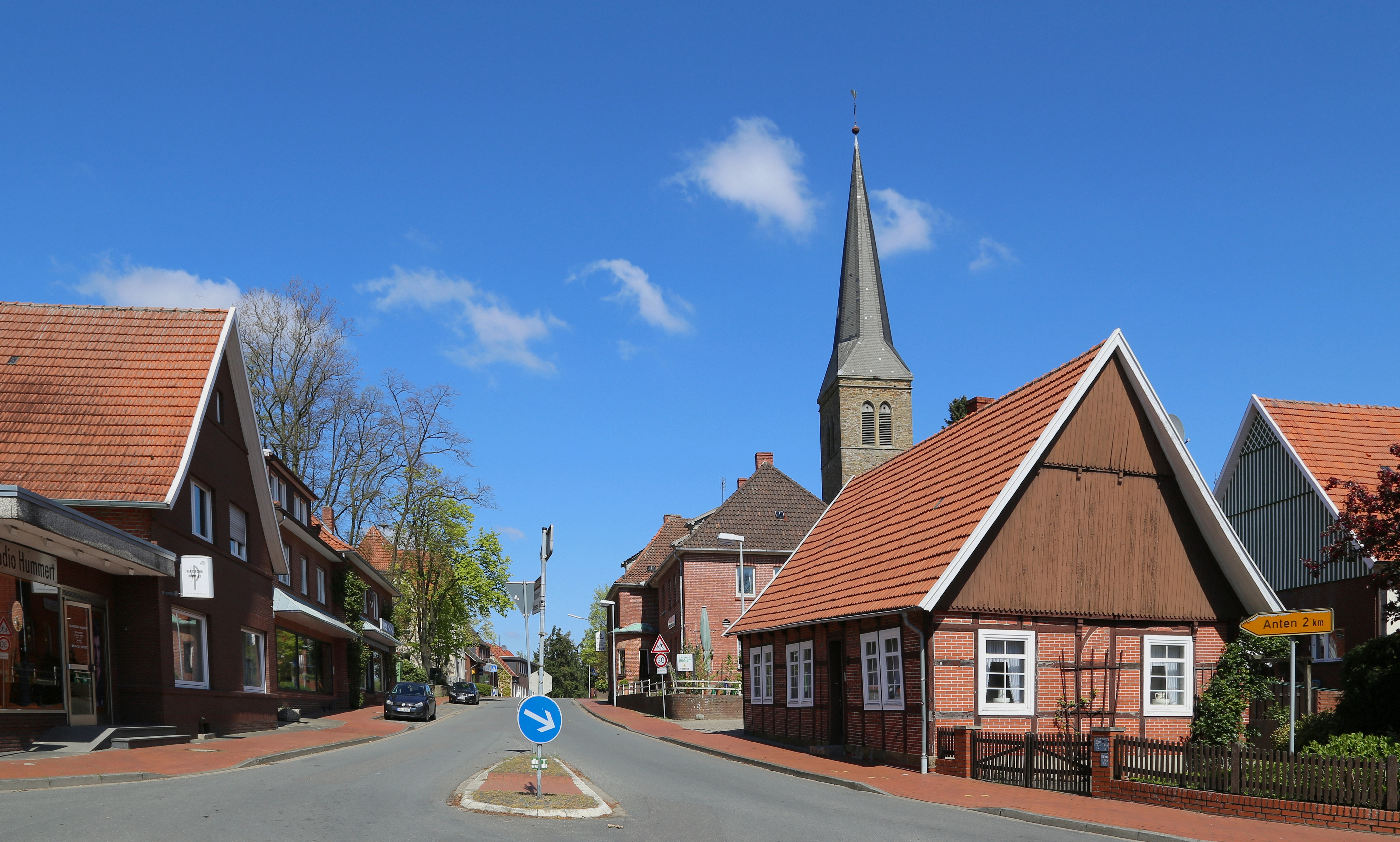 Anten Street (Antener Straße) in Berge, Samtgemeinde Fürstenau, Landkreis Osnabrück, Lower Saxony, Germany.